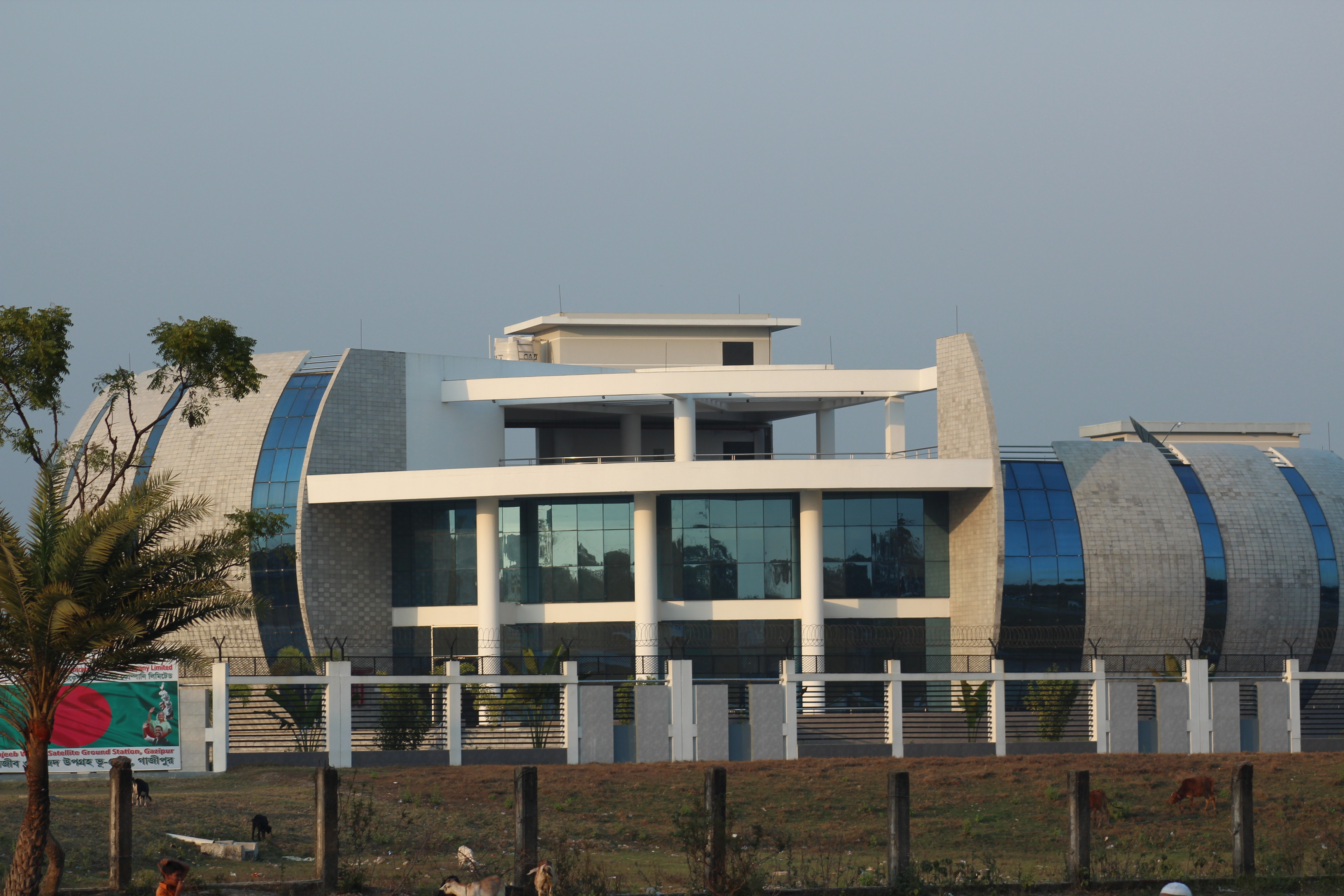 Bangabandhu Satellite PrimaryGround Control Station